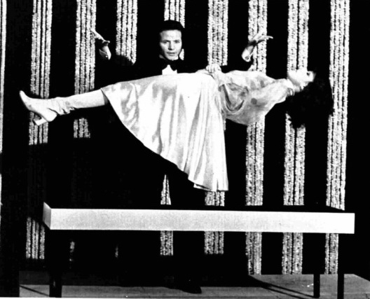 Italian illusionist Silvan makes presenter Mita Medici levitate during a 1973 episode of the Italian show Canzonissima